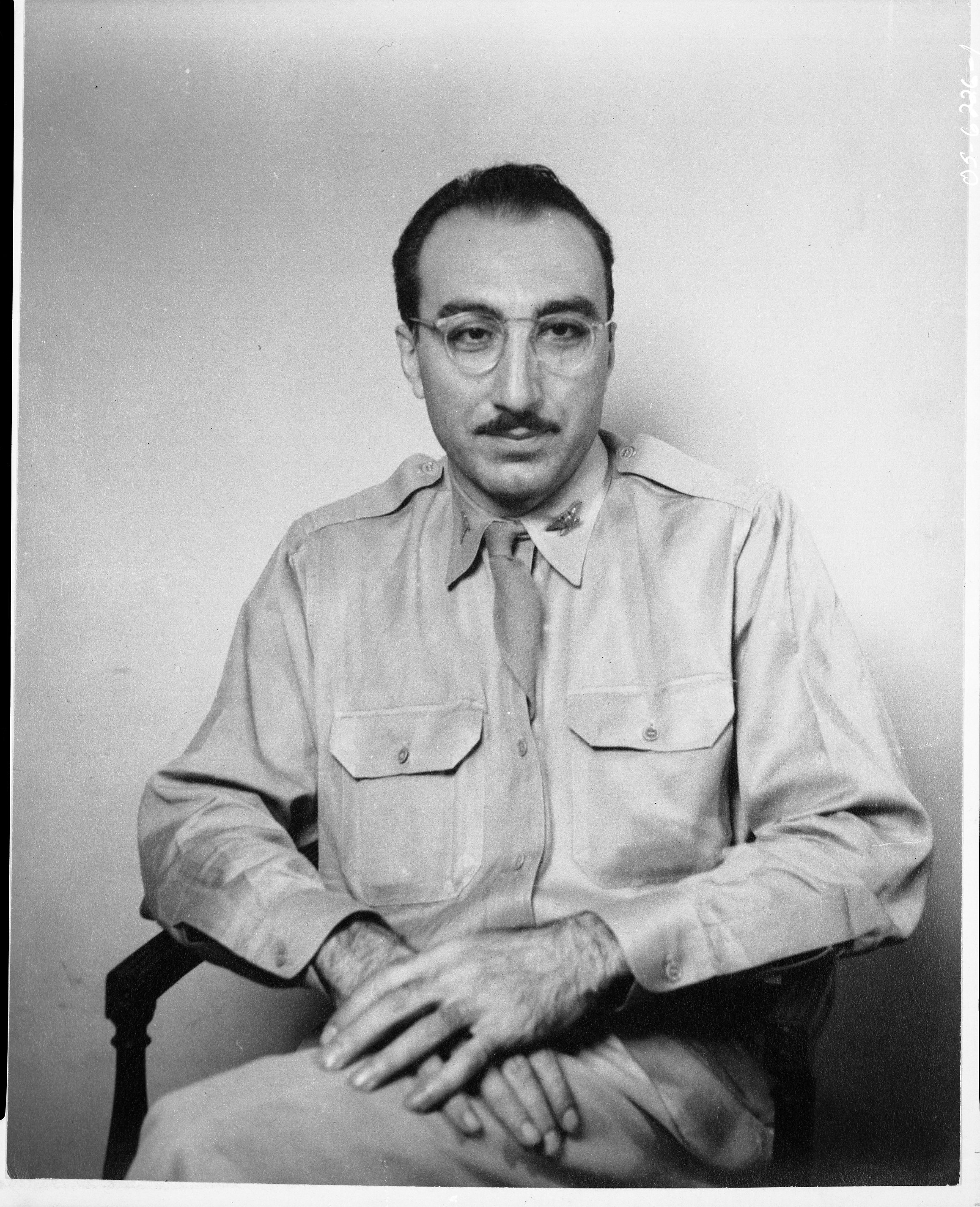 Colonel Michael DeBakey, Medical Corps, US Army, October 1945-February 1946. [DeBakey was a pioneer in heart transplantation].